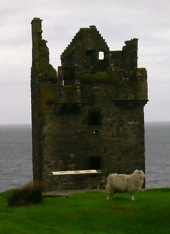 Gylen Castle, Kerrera, Scotland, from the landward side, taken in 2014